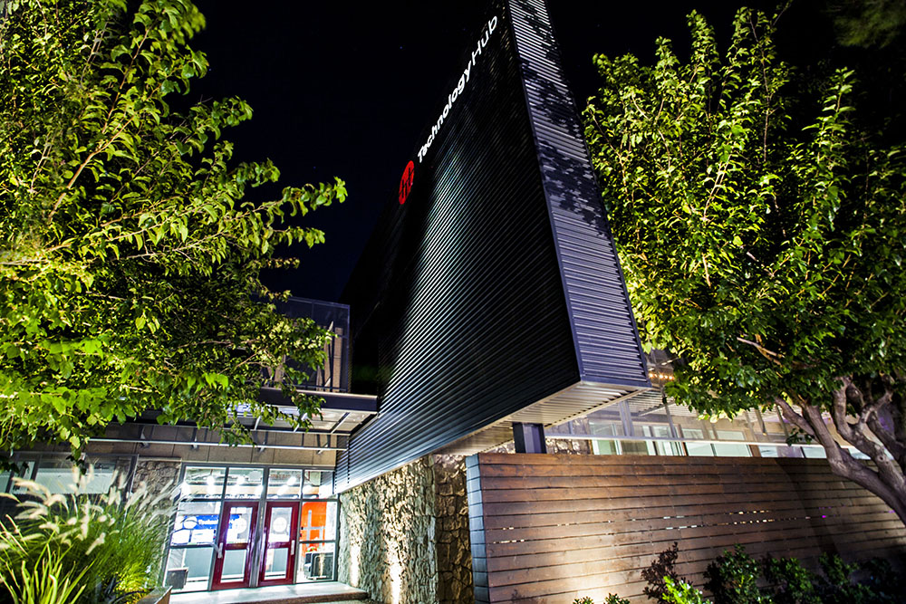 Technology Hub